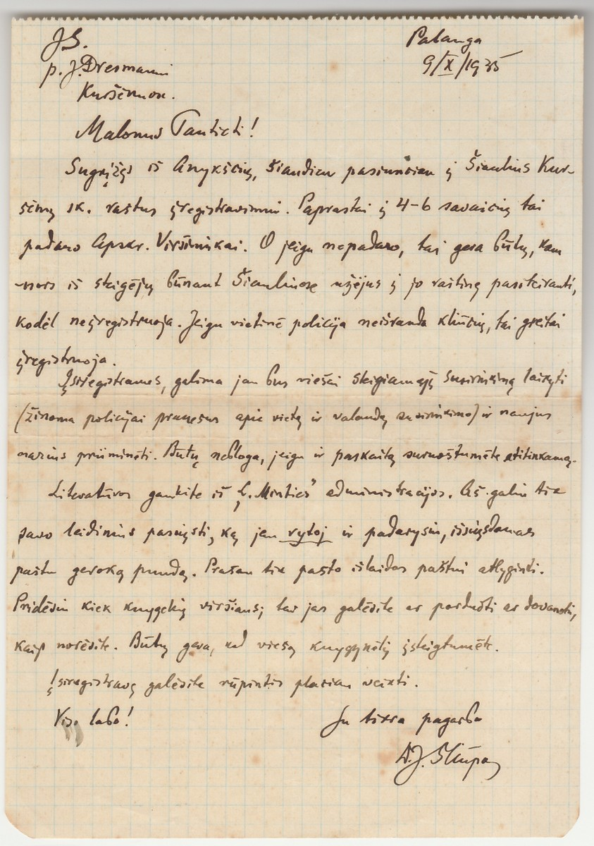 Letter from Jonas Šliūpas to Julius Dresmanas